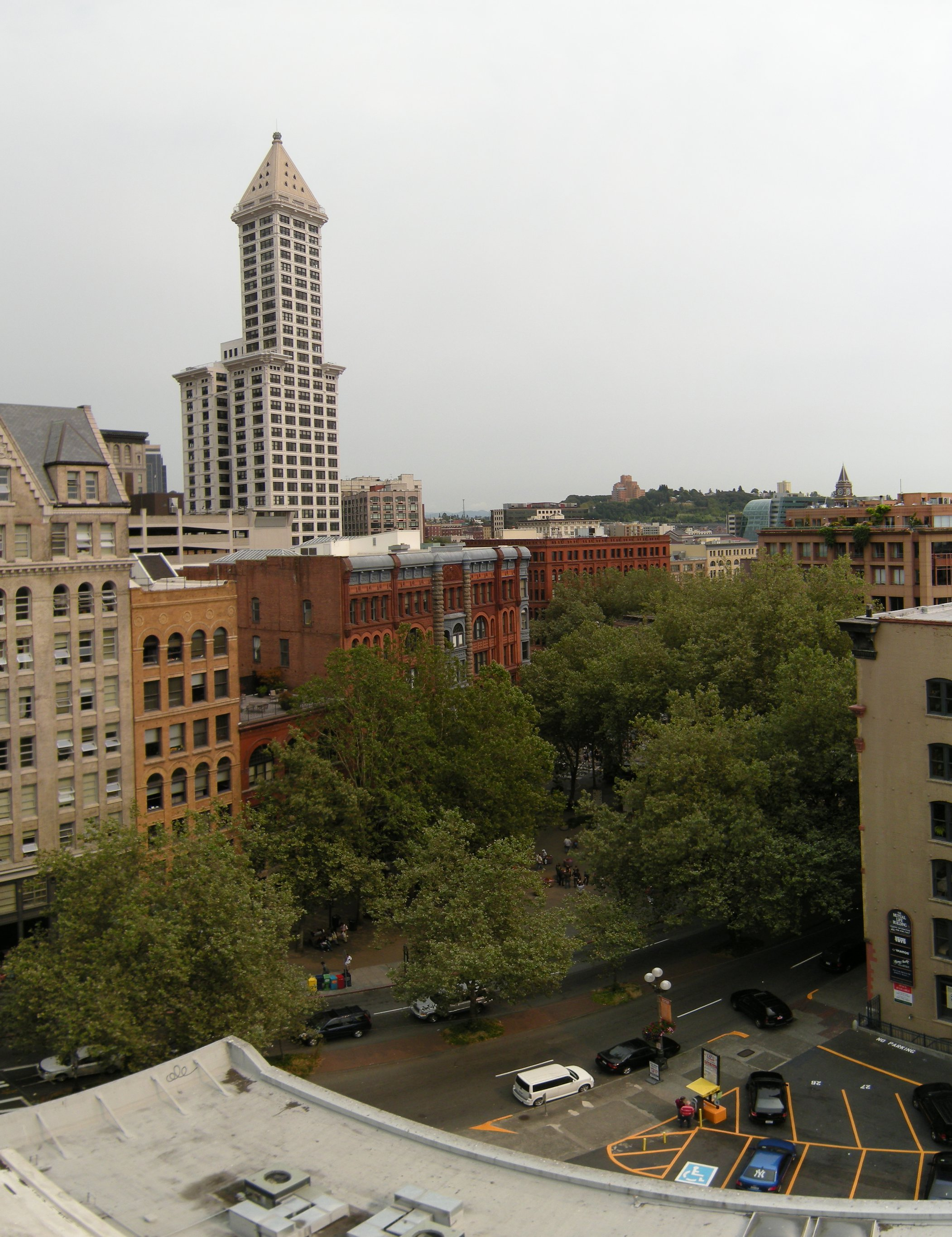 Panoramic view of Pioneer Square Park, Seattle, Washington and surrounding neighborhood, seen from atop the 10-story parking lot at First and Columbia (though this is from closer to First & Cherry). This image was created with Hugin